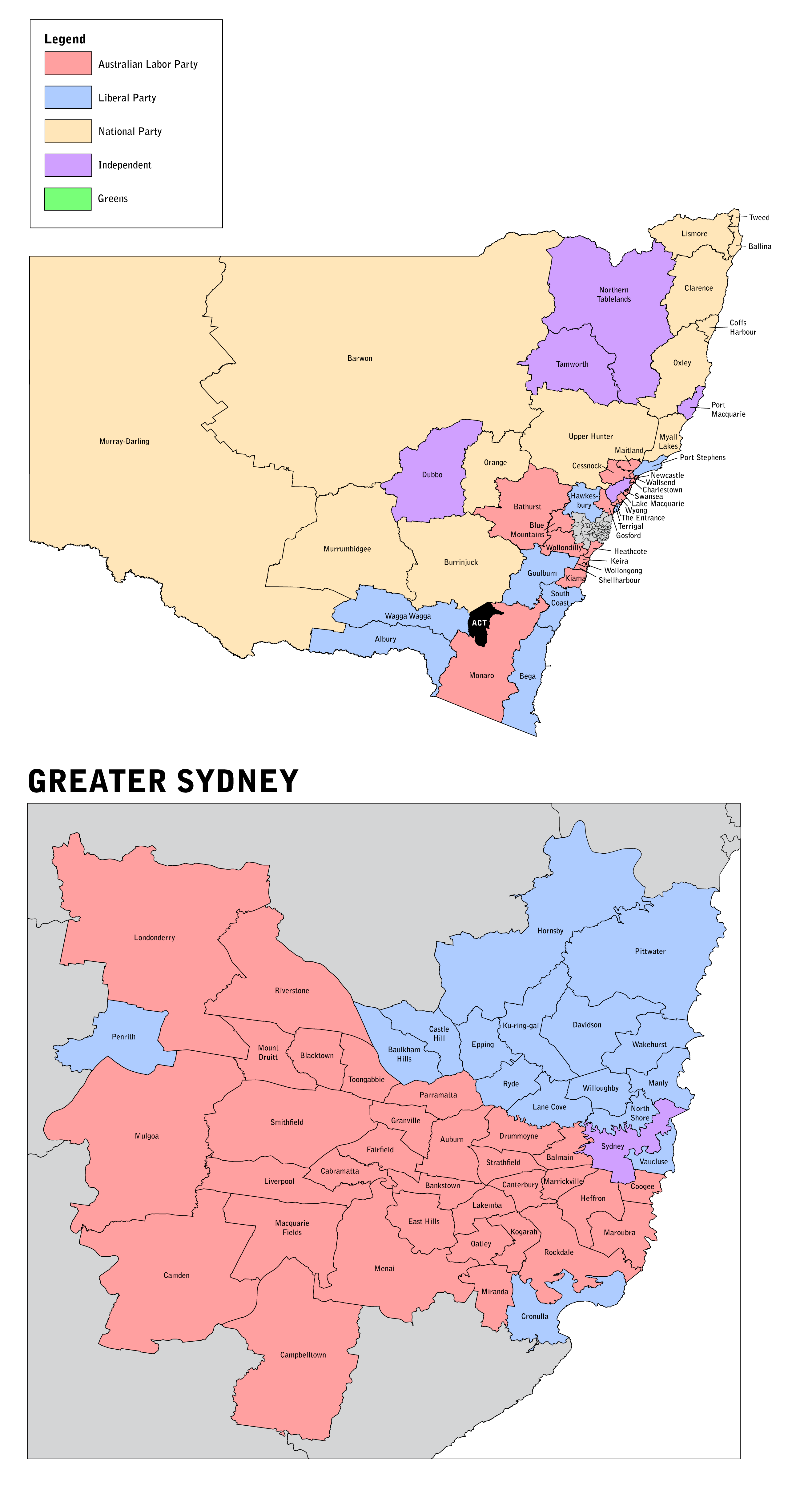 Electoral map of New South Wales with inset for the Greater Sydney area prior to the New South Wales state election held on 26 March 2011.